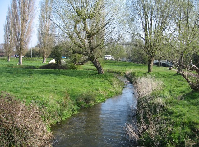 Drainage ditch - Sheep's Green